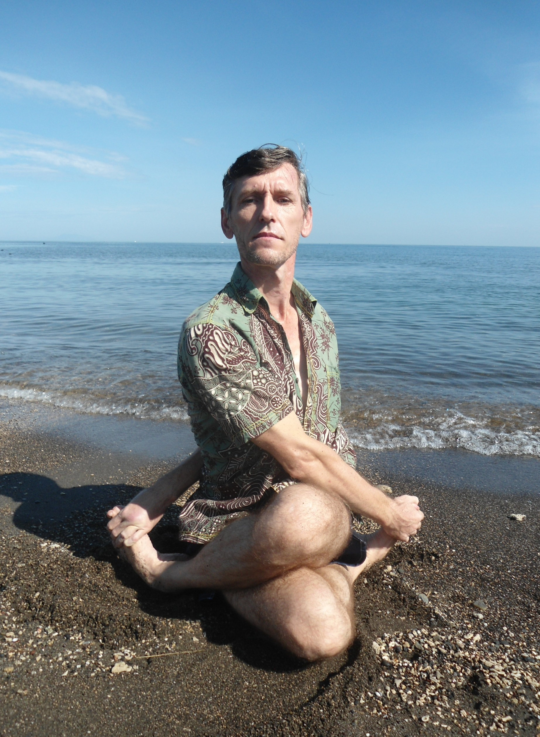 Baddha Gomukhasana by Dr. Igor Popov